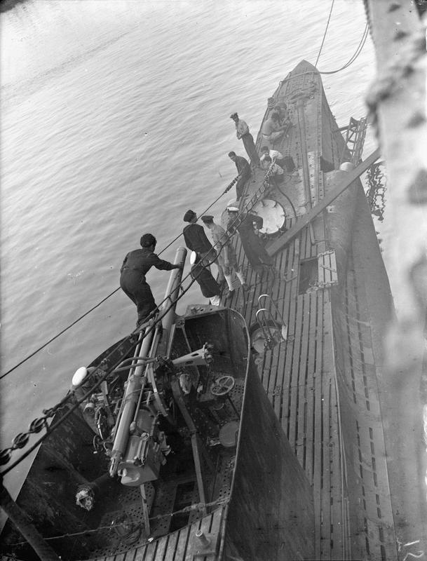 Painting the Guns on Board the Greek Submarine Papamicolis, 30 October To 7 November 1942, Beirut, Syria.